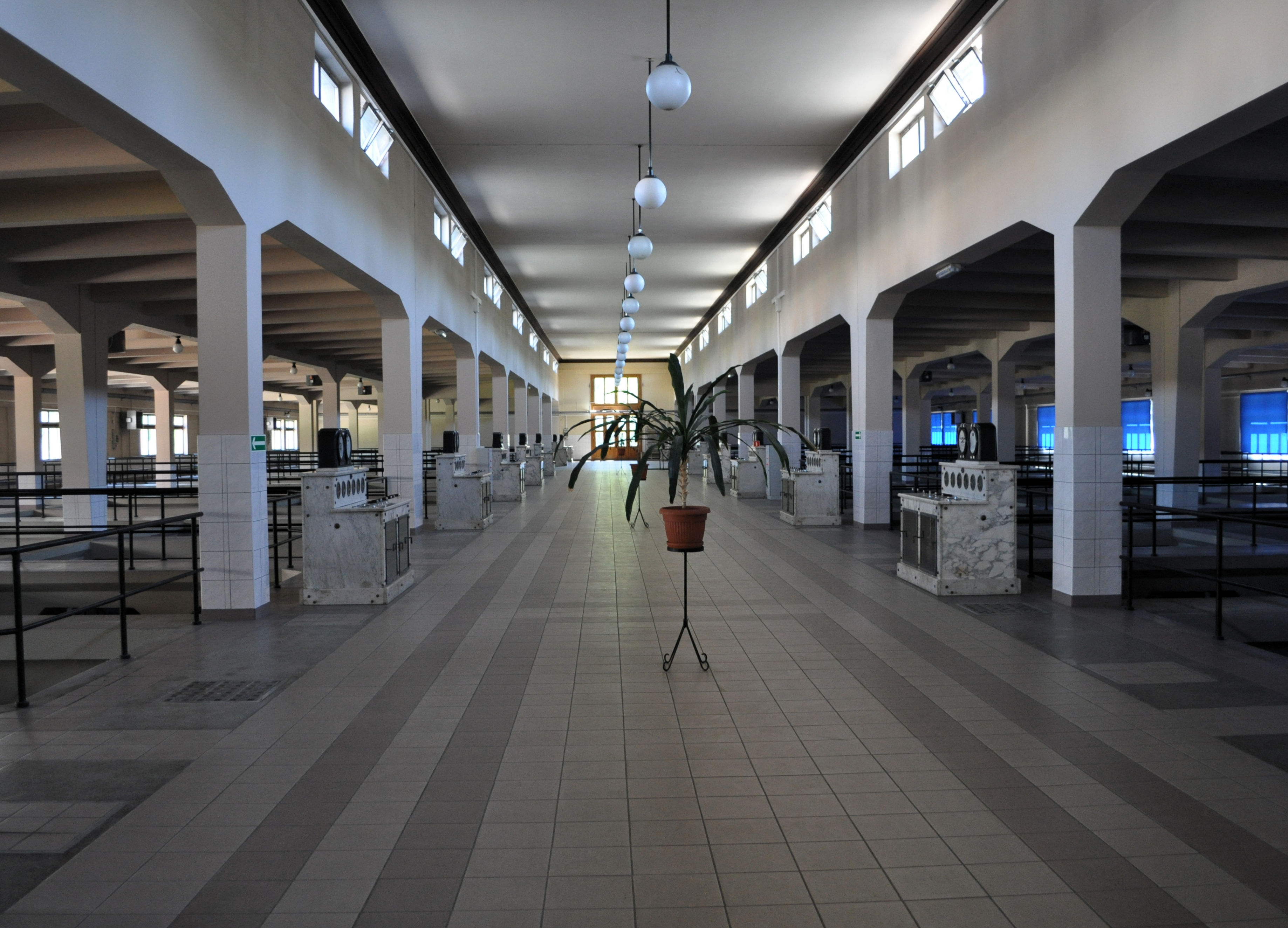 Warsaw Water Filters